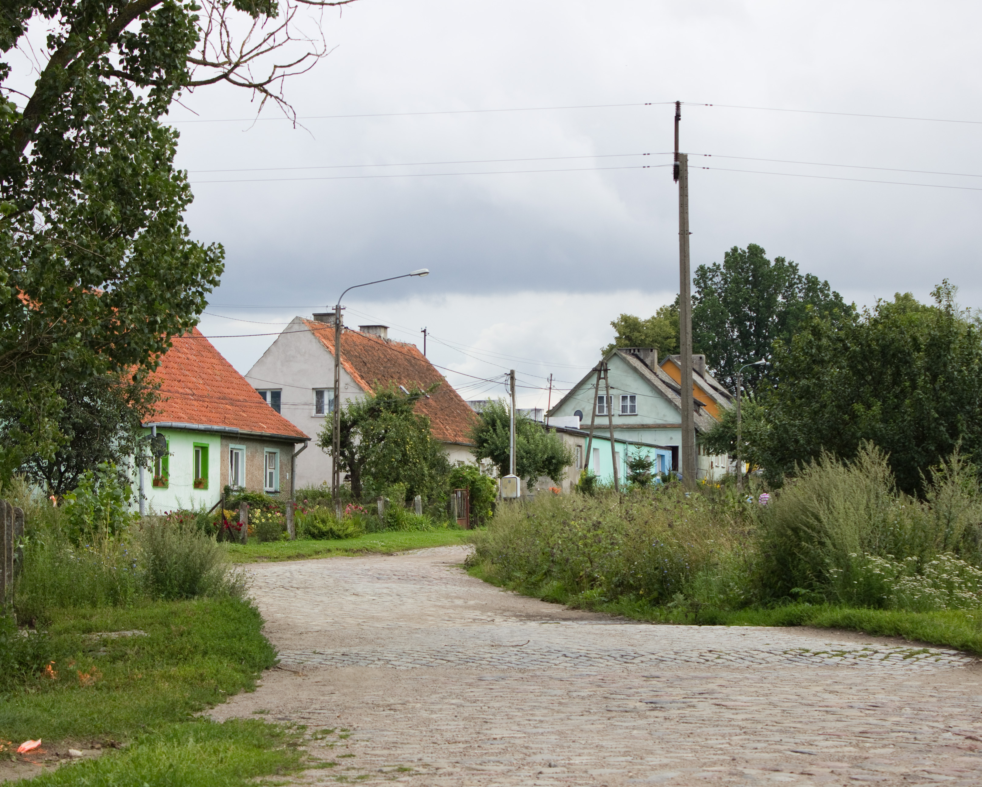 Sątopy, gmina Bisztynek, powiat bartoszycki, Warmian-Masurian Voivodeship